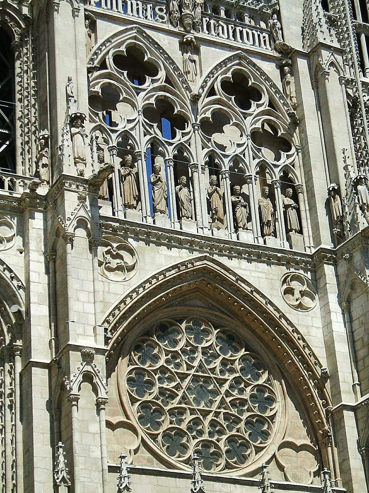 Rosetón y galería calada en la fachada de Santa María de la Catedral de Burgos, España